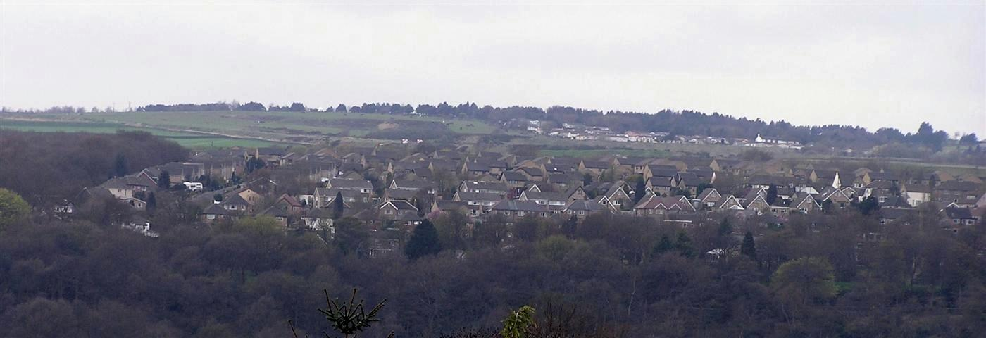 View of Butternab & Beaumont Park, Huddersfield. From Taylor Hill